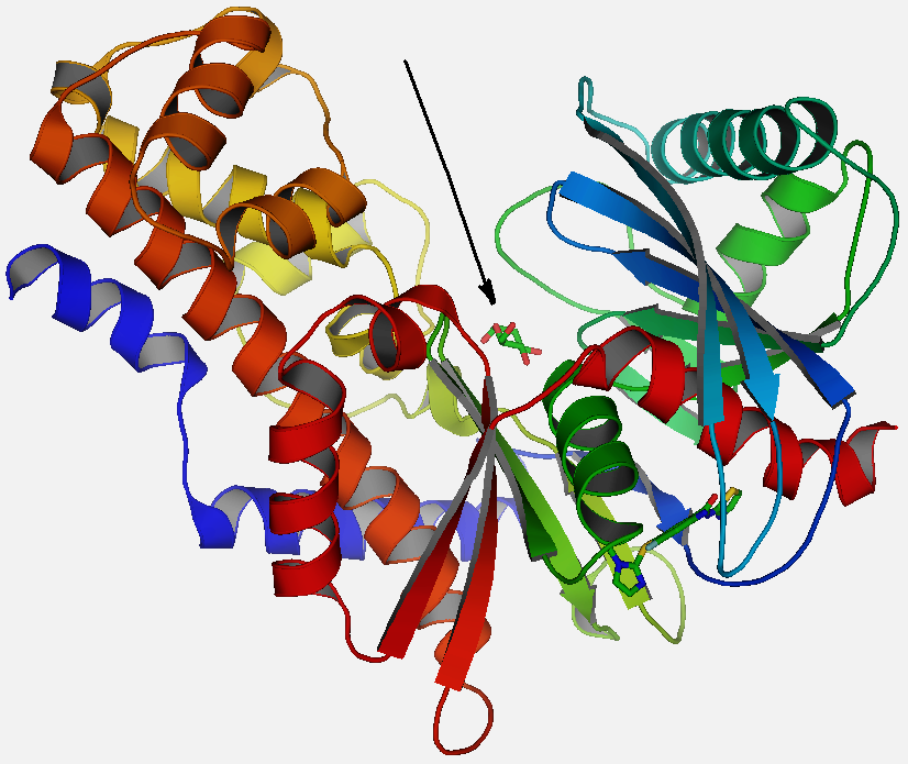 Human Glycokinase. The arrow shows a Glucose molecule at the active site.